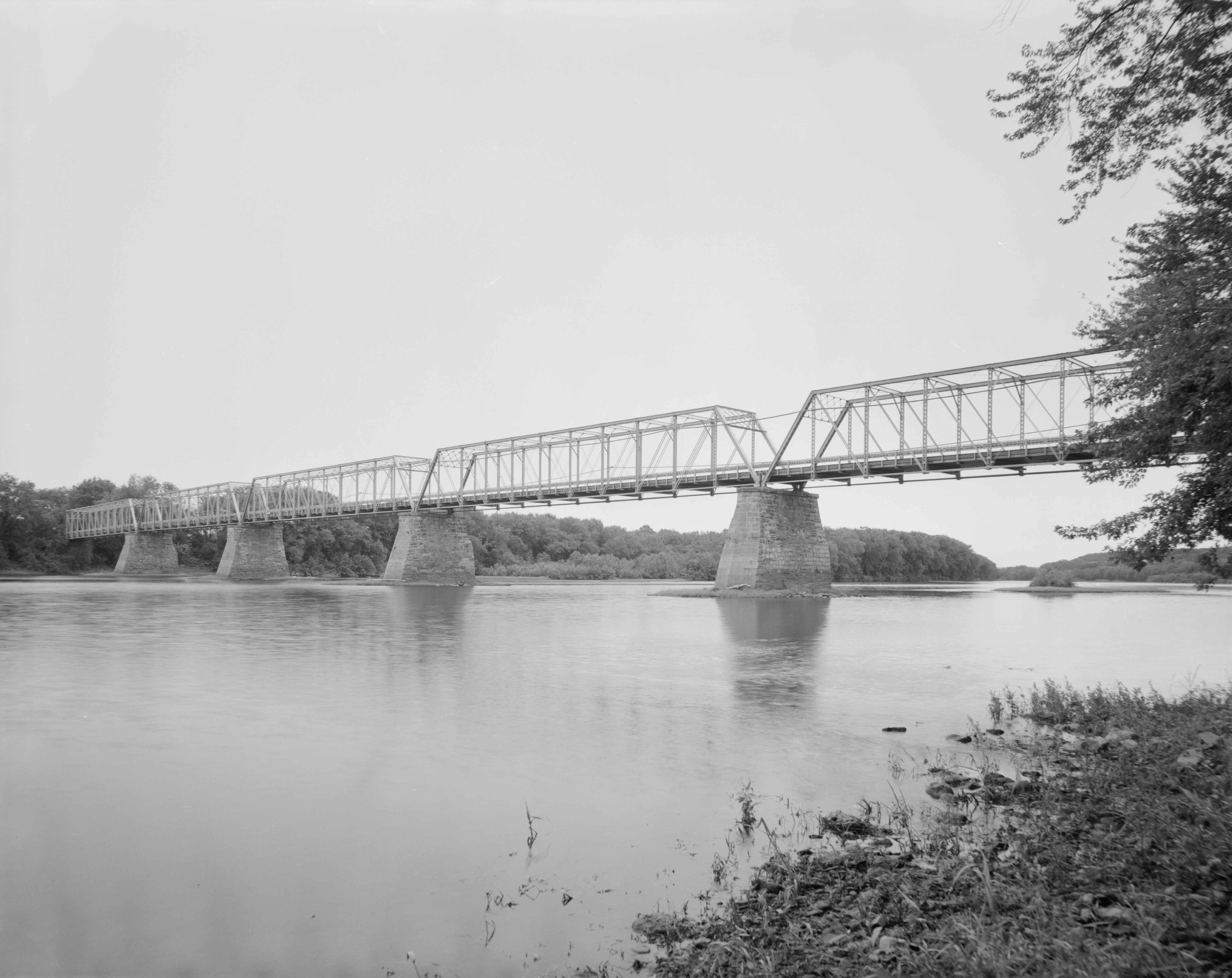 Northwestern side of the Allenwood River Bridge, which carries Legislative Route 460 over the West Branch of the Susquehanna River between Delaware Township in Northumberland County and Gregg Township in Union County in the U.S. state of Pennsylvania. Built in 1897, this Pratt through truss bridge is listed on the National Register of Historic Places.